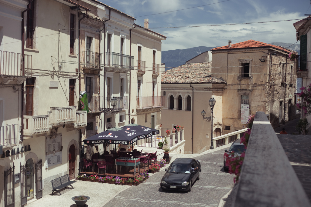 Piazza, main square in Bugnara, Italy.